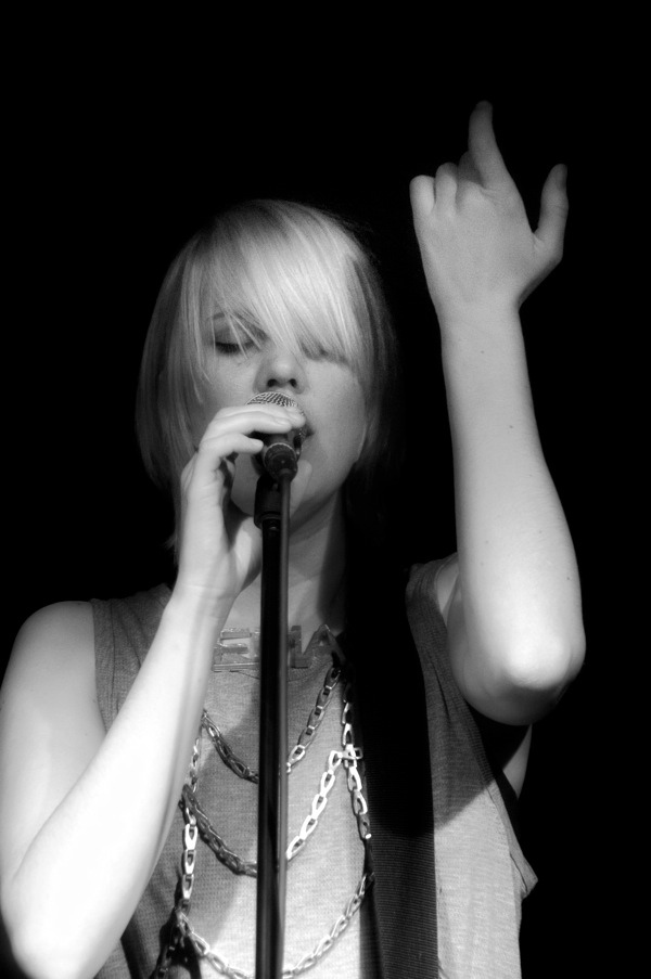 Erika M. Anderson performing at the Berghain Kantine in Berlin on May 5th, 2011.